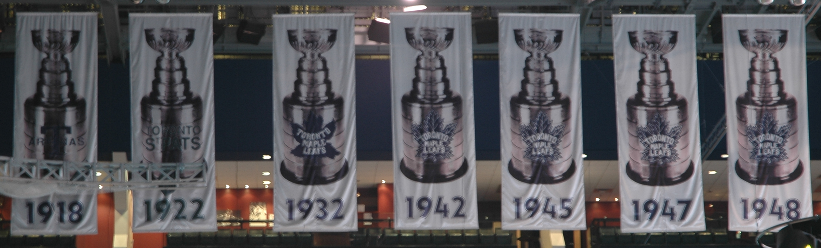 Toronto Maple Leafs Stanley Cup Banners in the Air CAnada Center